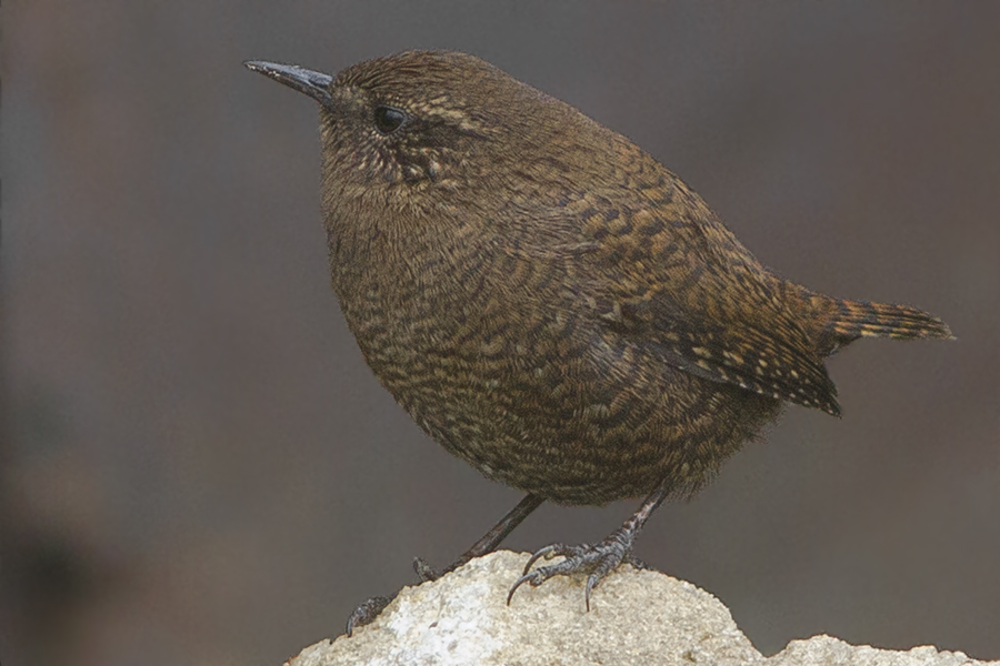 The species Winter Wren had been photographed in Pangolakha Wildlife Sanctuary during GoingWild's birding trip at East Sikkim, India on 20.10.2015.